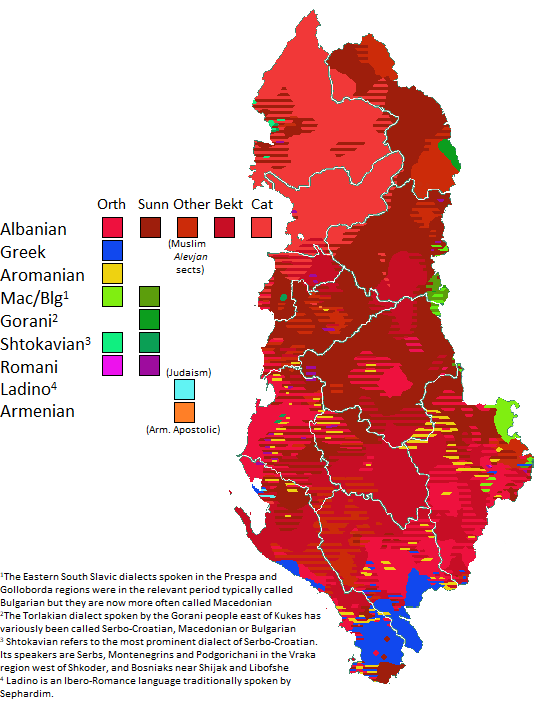 This map, using a wide variety of sources (available in a chart for where they apply), charts the traditional locations of notable linguistic and religious communities in Albania, around the early 20th century. Note that hatched areas imply the presence of multiple groups, but they do not imply parity-- in fact usually there is not parity. Thus this map underrepresents the demographic weight of local majorities -- such as Sunnis in Elbasan who are in a hatched area with Orthodox who they vastly outnumber. Thus in different areas, Sunni Albanians, Bektashi Albanians, Orthodox Albanians, Catholic Albanians, and Orthodox Greeks are likely underrepresented, while smaller groups (Vlachs, Sephardim, Roma) may be overrepresented where they occur. The citation chart for this map is can be found here (currently under construction still). If you do choose to edit this file, please edit this page as well so I know which sources you used. You may also use this page to request edits to the file, by presenting a source and saying where it pertains to, below the chart.